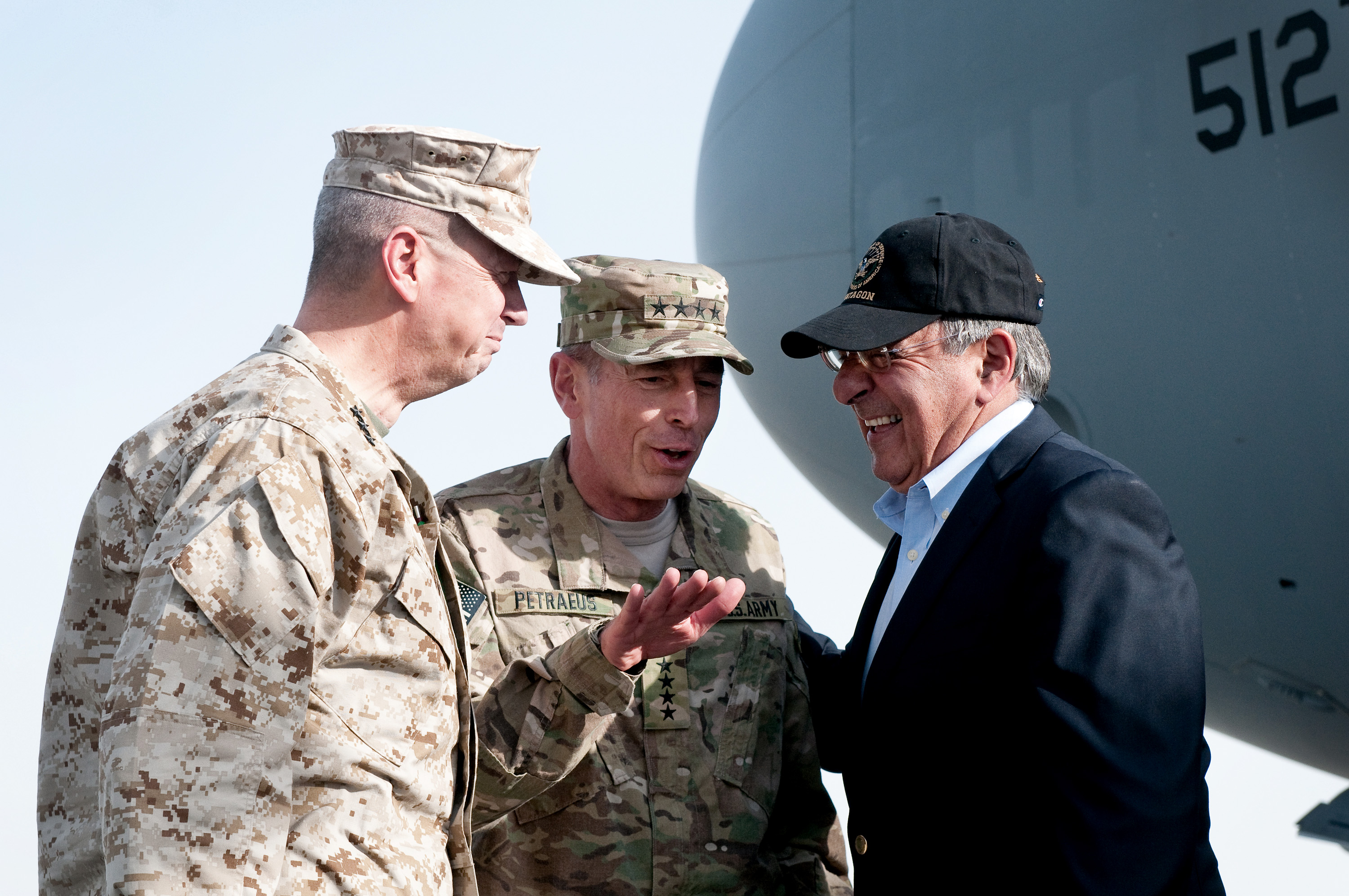 General John R. Allen, incoming commander, International Security Assistance Force (ISAF)/U.S. Forces- Afghanistan (USFOR-A) and General David H. Petraeus, commander, ISAF/USFOR-A, greet Leon Panetta, U.S. Secretary of Defense, upon his arrival to Afghanistan at Bagram Airfield.